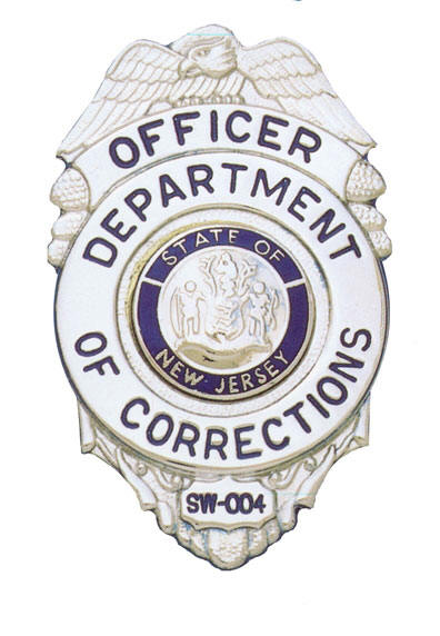 Current badge of the NJDOC